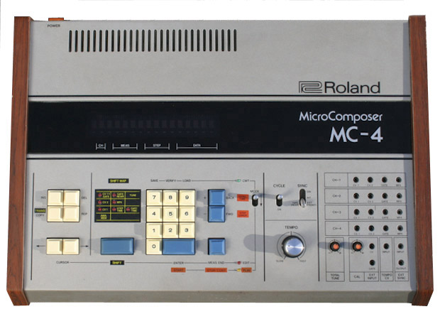 Sequencer/Microcomposer MC-4 manufactured in the 1970th by Roland to control modular synthesizer like the Roland SYSTEM-100M. The system had four channels.